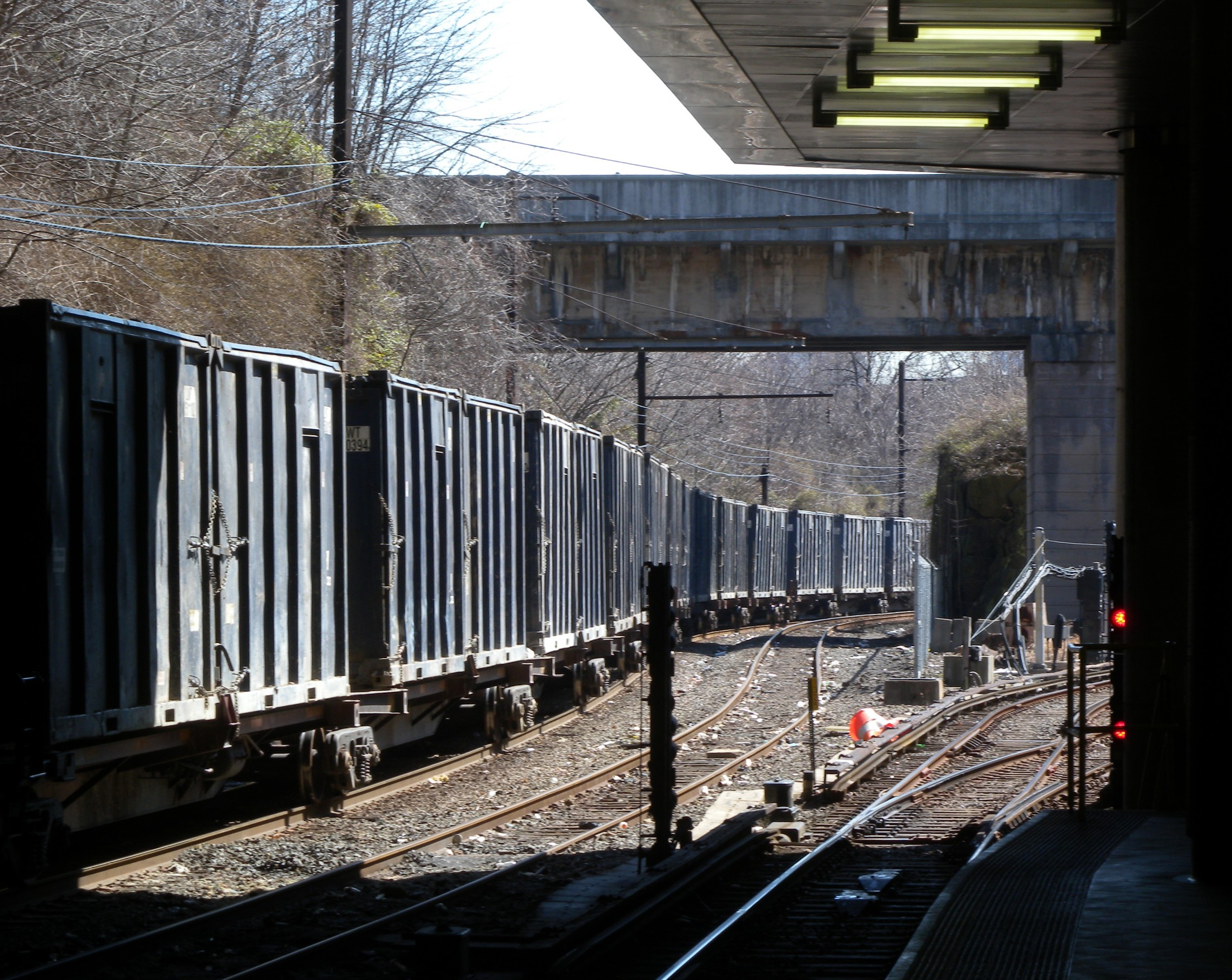 Looking east along the Bergen Hill Cut from westbound platform of JSQ station, as freight (garbage?) train passes under Summit Avenue and enters the station on a sunny midday.